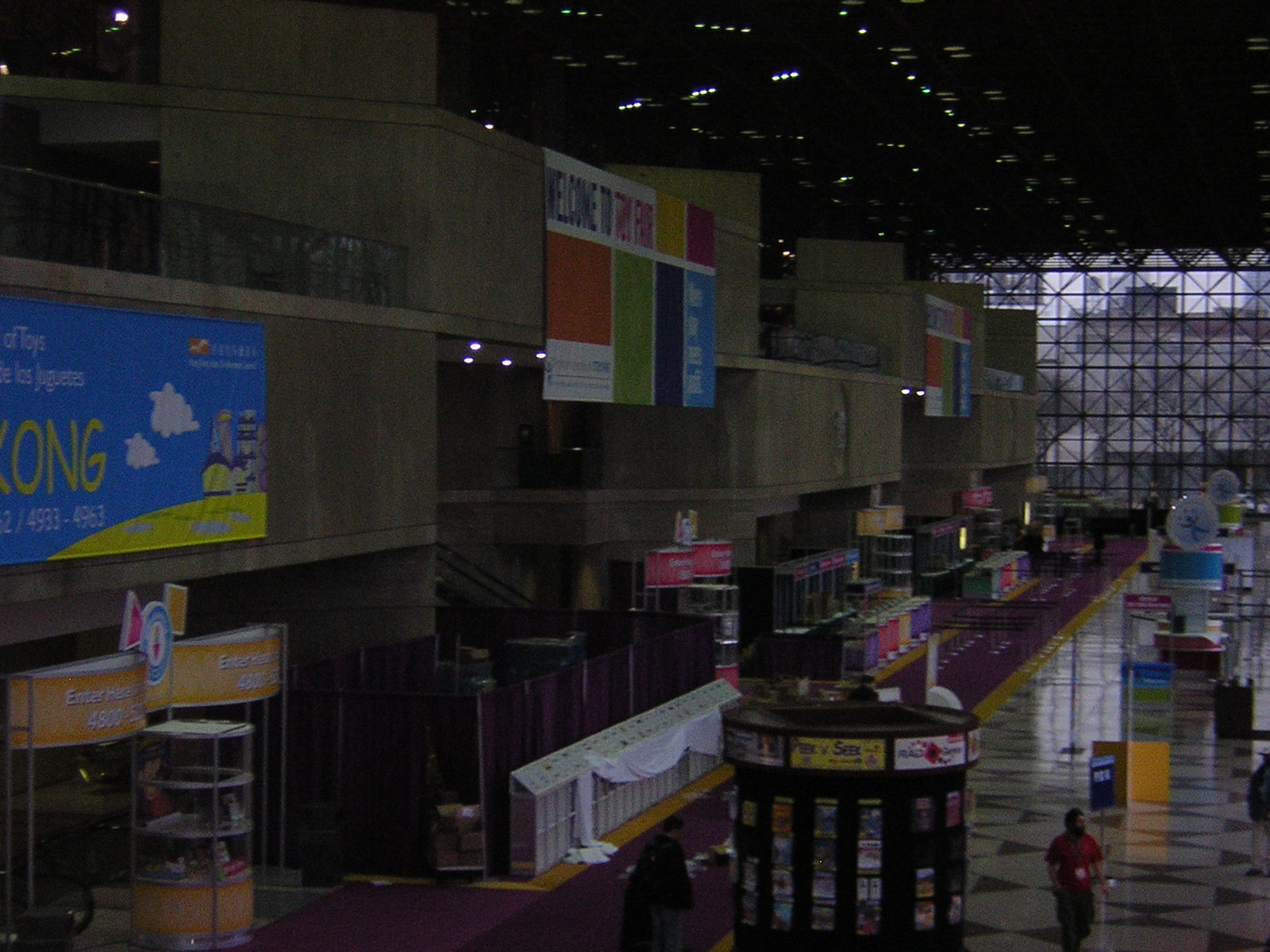 American International Toy Fair 2006. Interior of Javits Convention Center, NYC.